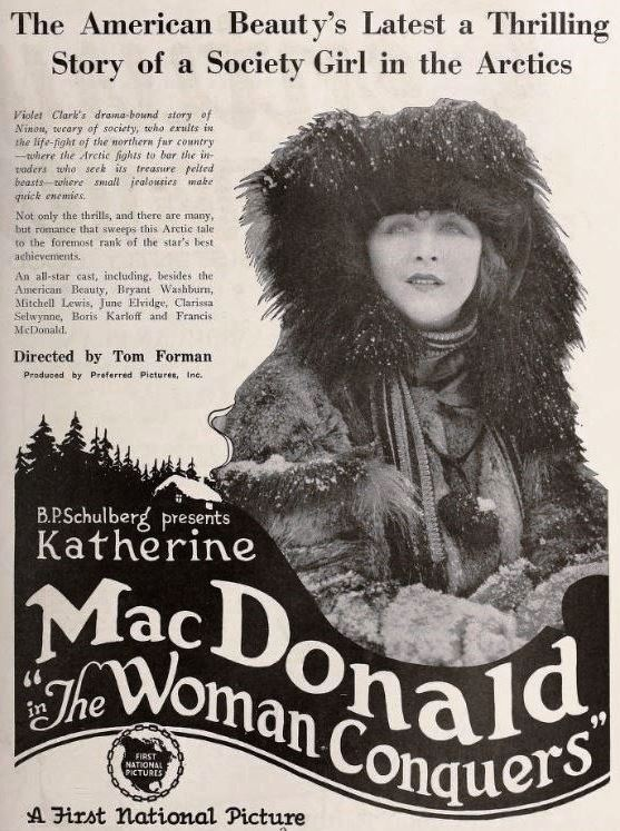 Advertisement for the American drama film The Woman Conquers (1922) with Katherine MacDonald, on page 11 of the December 16, 1922 Exhibitors Trade Review [788 of 1164].